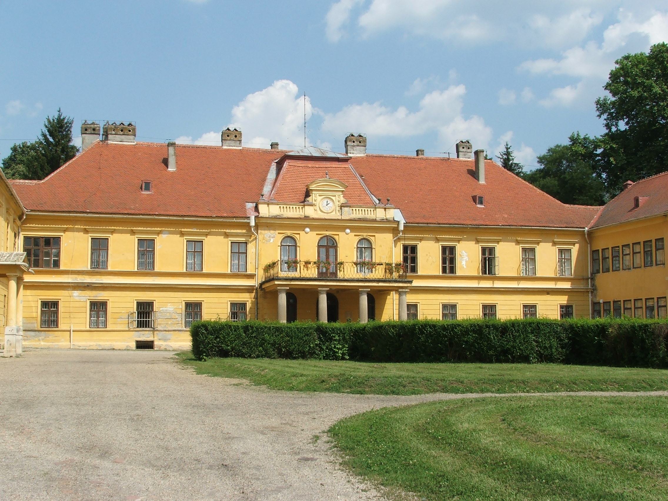 Széchenyi Mansion, Somogyvár